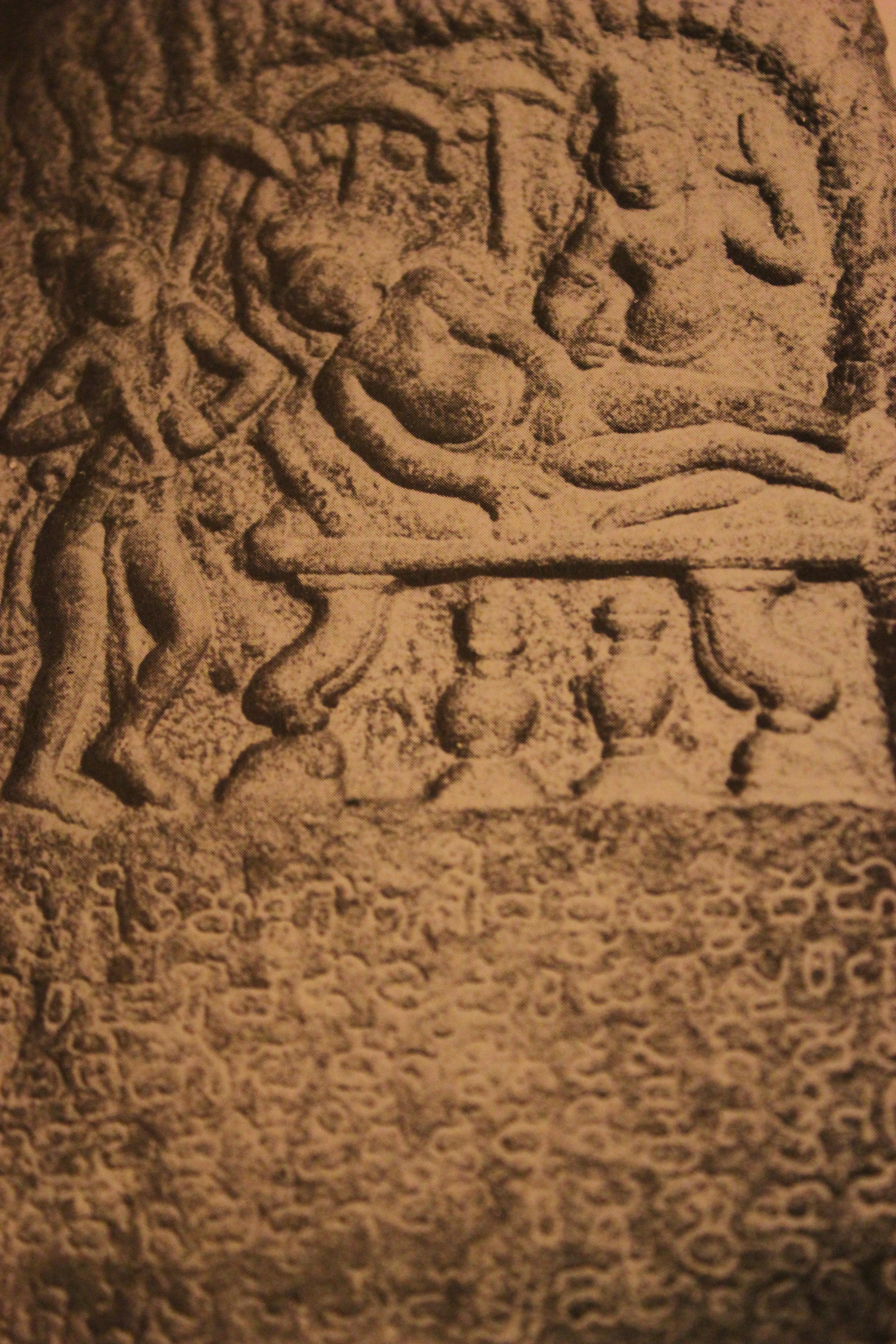 The Doddahundi memorial stone was raised in honor of Western Ganga Dynasty King Nitimarga I in 869 C.E. The king was a devout Jain who committed Sallekhana (ritual death).These memorial stones were raised in medieval India to honor noted Jains who committed Sallekhana.